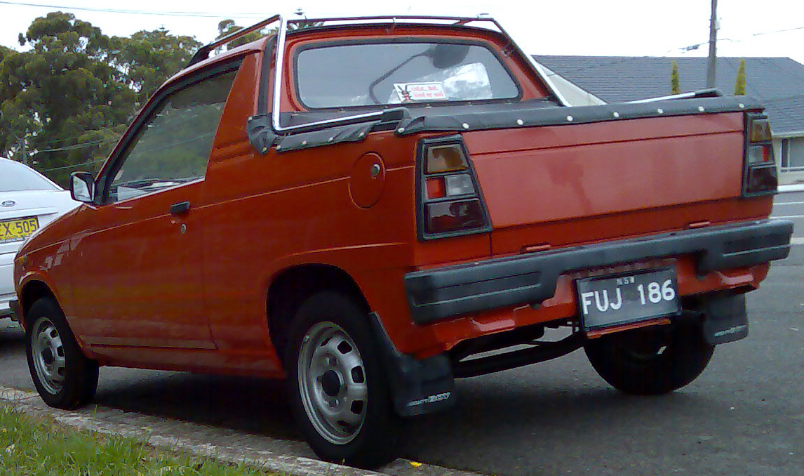 1986 Suzuki Mighty Boy utility. Photographed in Gymea, New South Wales, Australia.